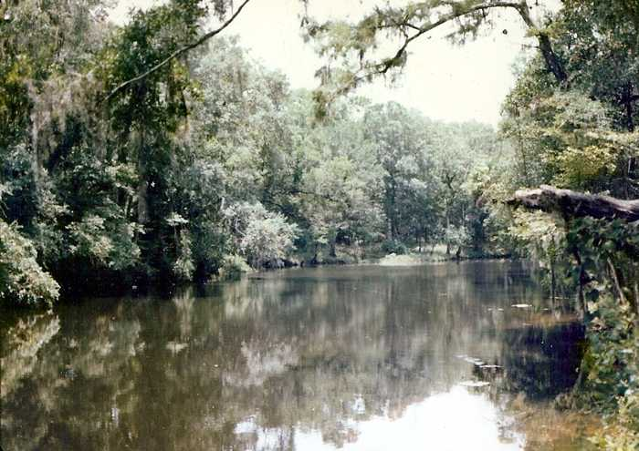 Taken 5 miles upriver (facing south) from the town of Steinhatchee, Fl. using my Nikkormat. Original image stored on my website at